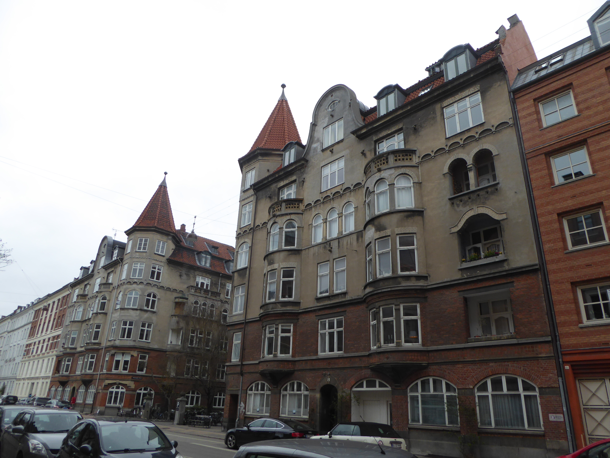 The apartment building Classensgaard at Classensgade in Østerbro in Copenhagen.